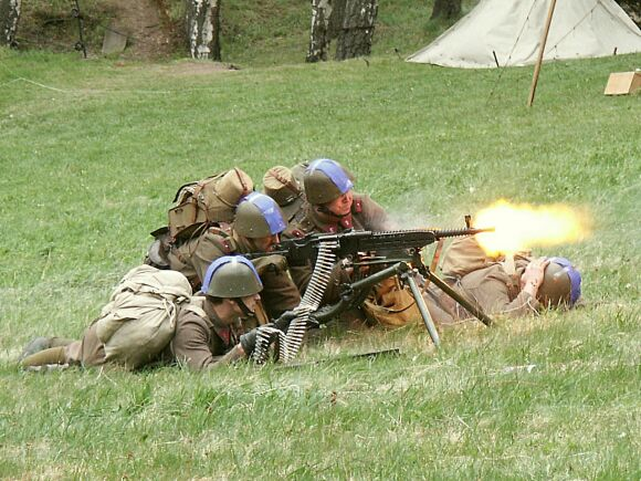 ZB vz. 37 in fight